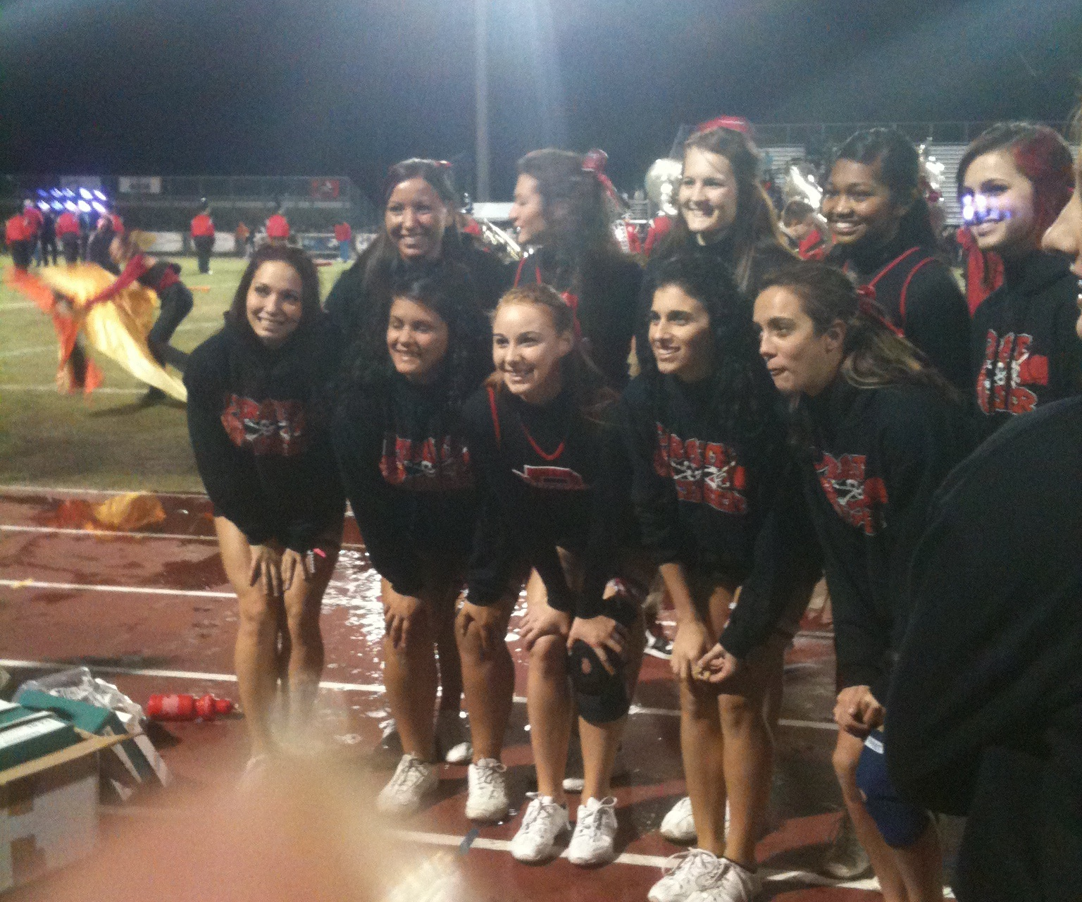 The Pirate squad posing for a picture at a football game open to the public during the 2011 season.